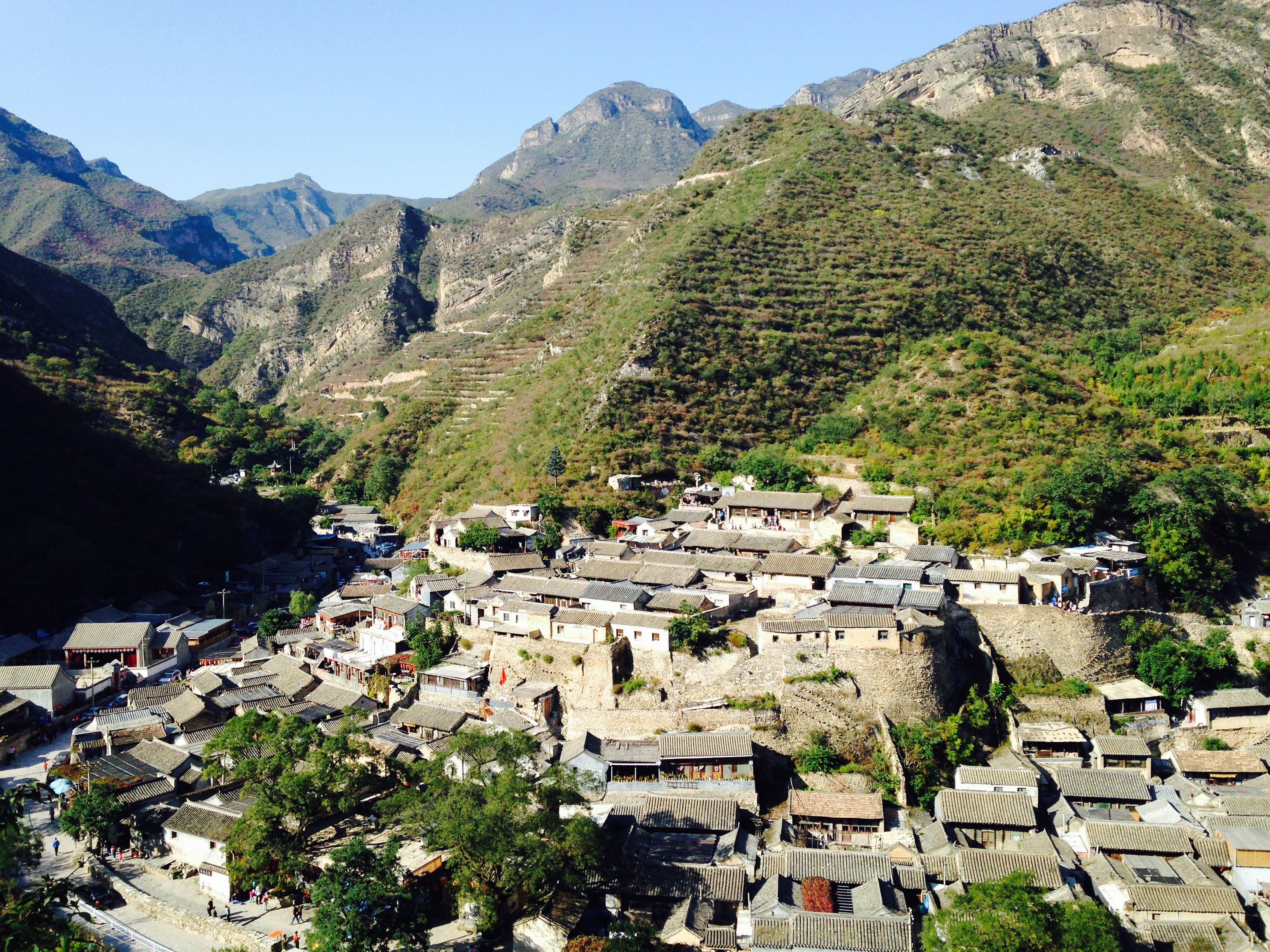 Overall view of the Chuandixia Village